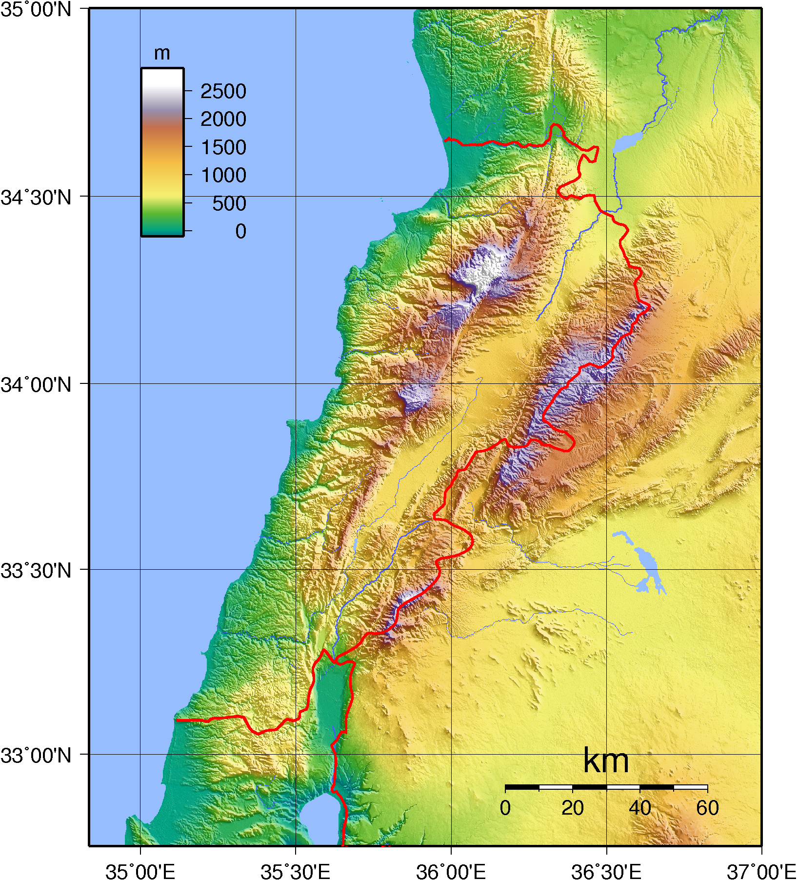 Topographic map of Lebanon. Created with GMT from SRTM data.